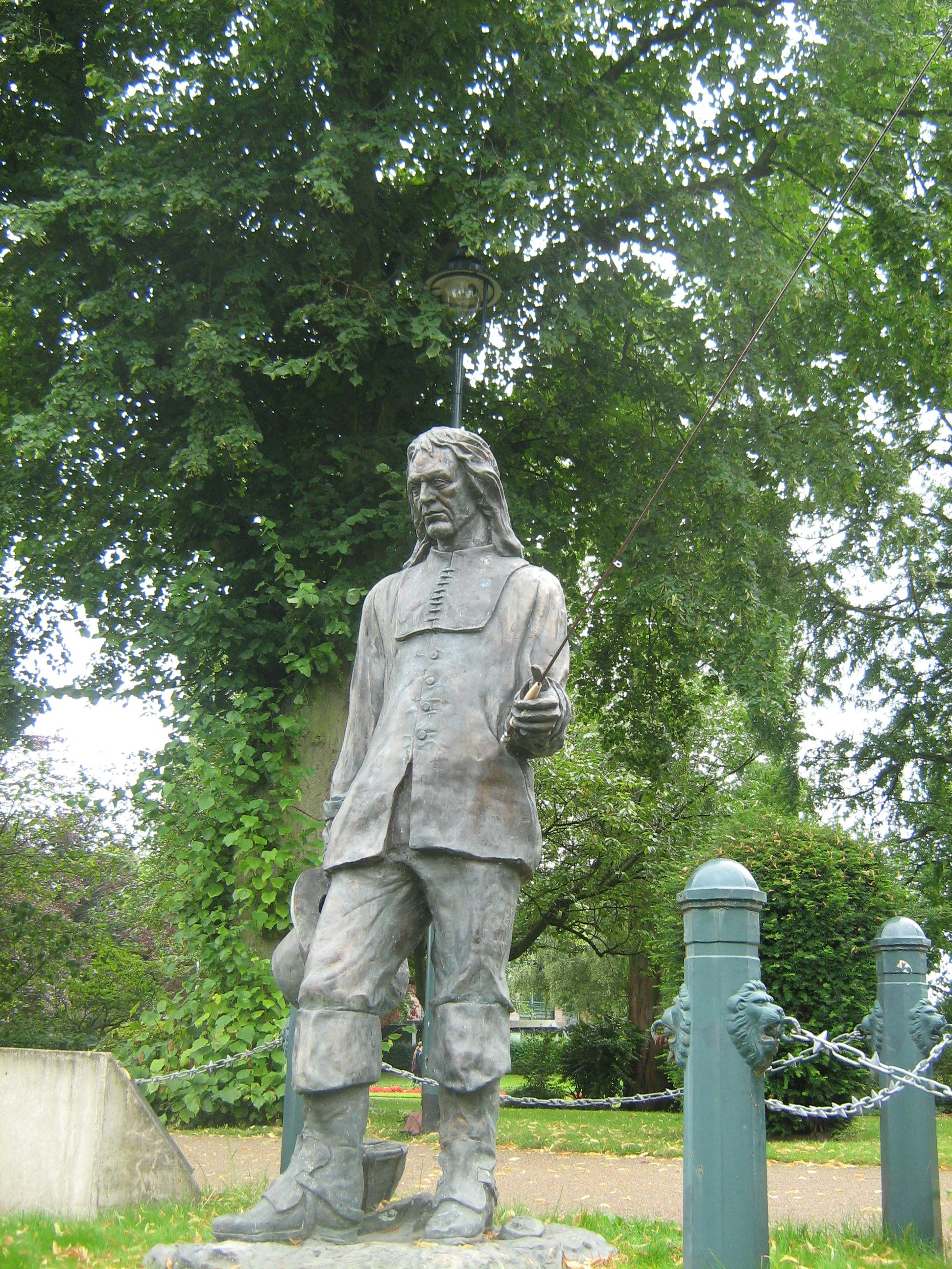 Park of Stafford, the beach of river Saw